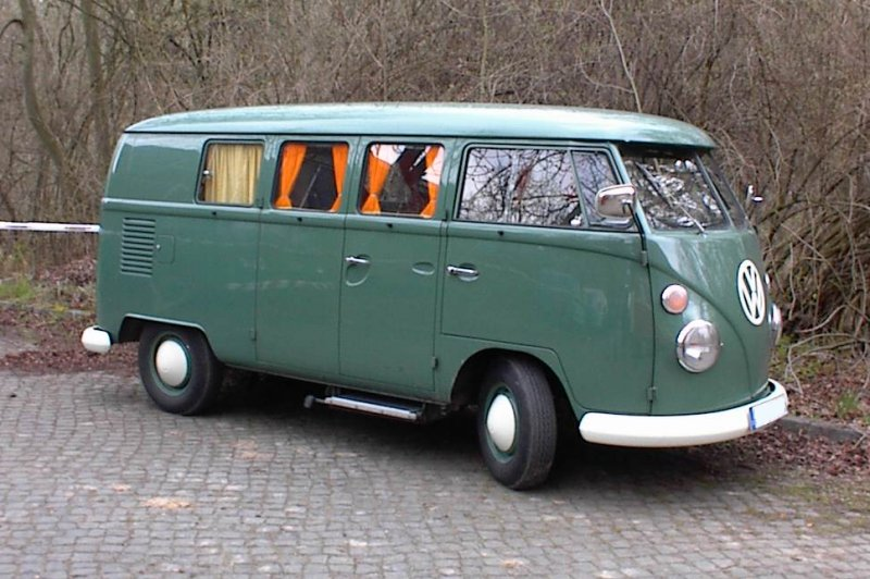 Volkswagen Type2 T1c Kombi 1966 VW Kombi. Colour of wheels and curtains are not original.